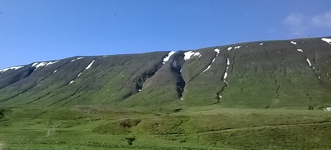 Fnjóskadalur